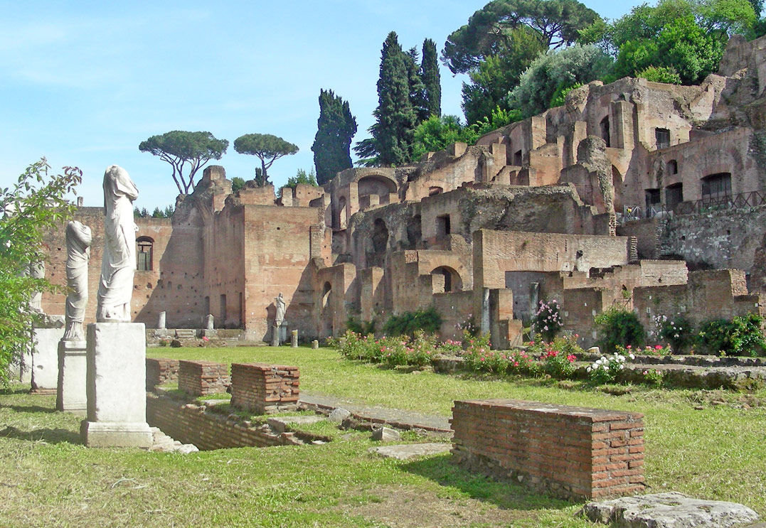 Rome, Roman Forum, House of Vestals, interior court